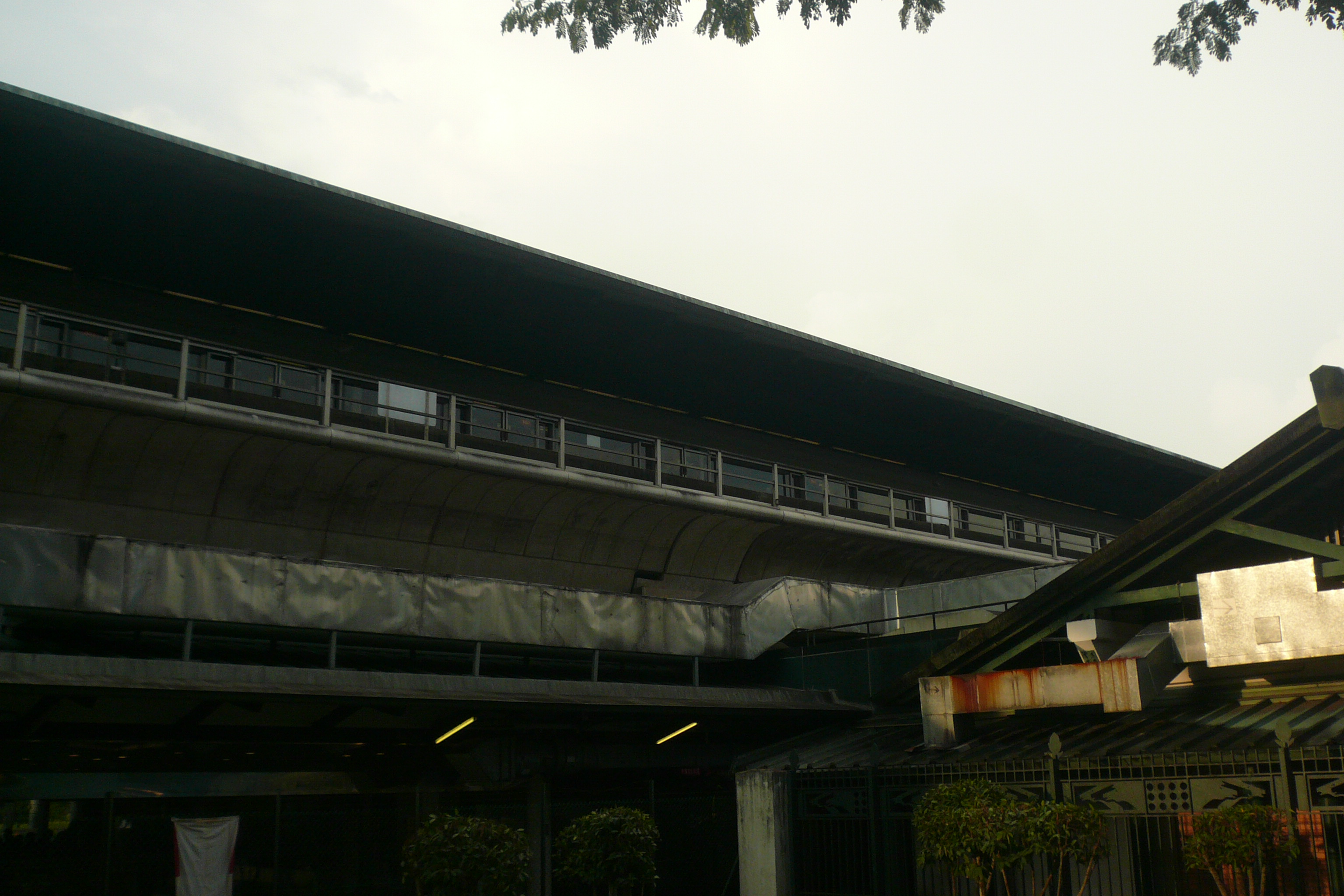 Kranji MRT